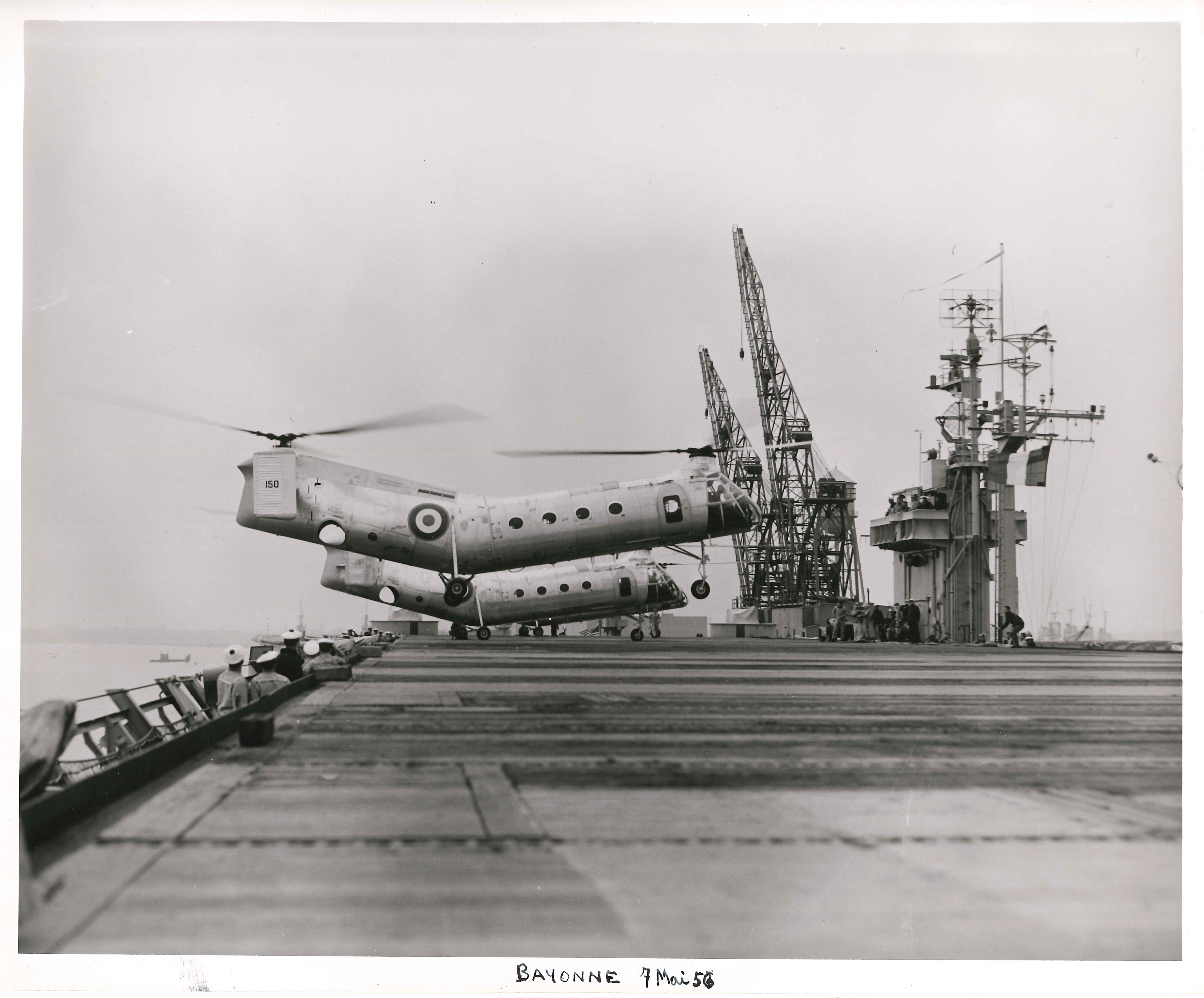 Landing of Vertol H-21 helicopter on deck of French aircraft transporter Dixmude on May 7, 1956, at Bayonne (NJ).